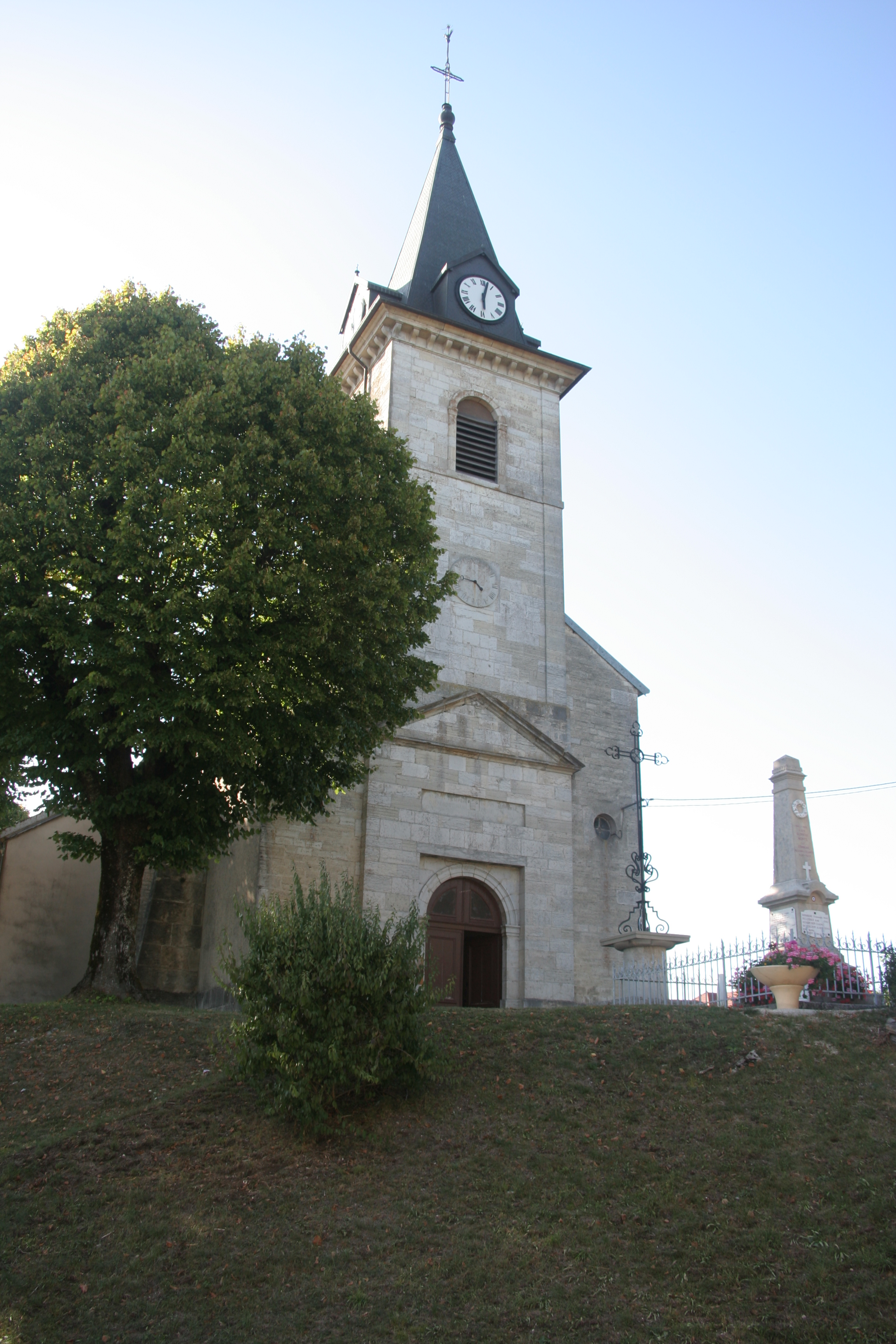 Le monument aux morts et l'église de Crotenay